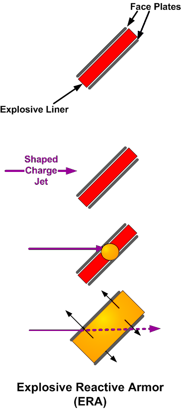 Diagram of the composition and method of action of Explosive Reactive Armor. This drawing was created on 9/10/2005 by George William Herbert and is licensed under the Creative Commons Attribution + Share Alike License 2.5 Georgewilliamherbert 19:01, 10 September 2005 (UTC)